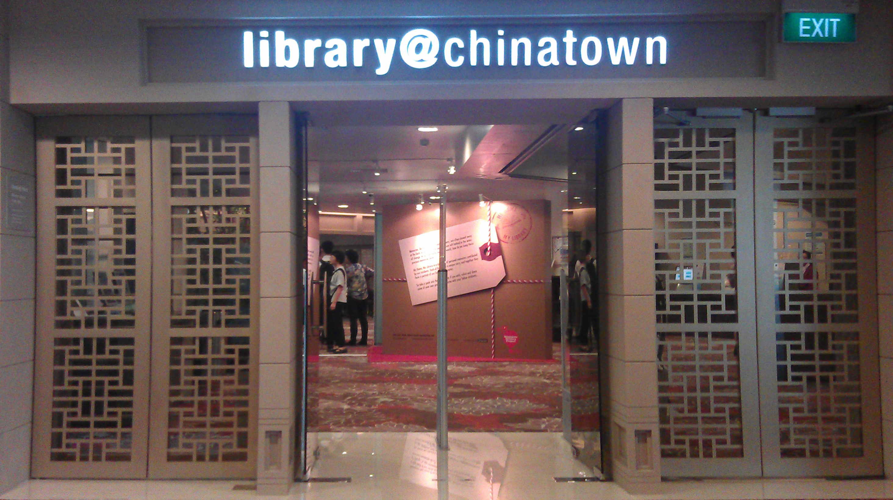 The first community-supported library in Singapore, library@chinatown, is located in Chinatown Point shopping mall.